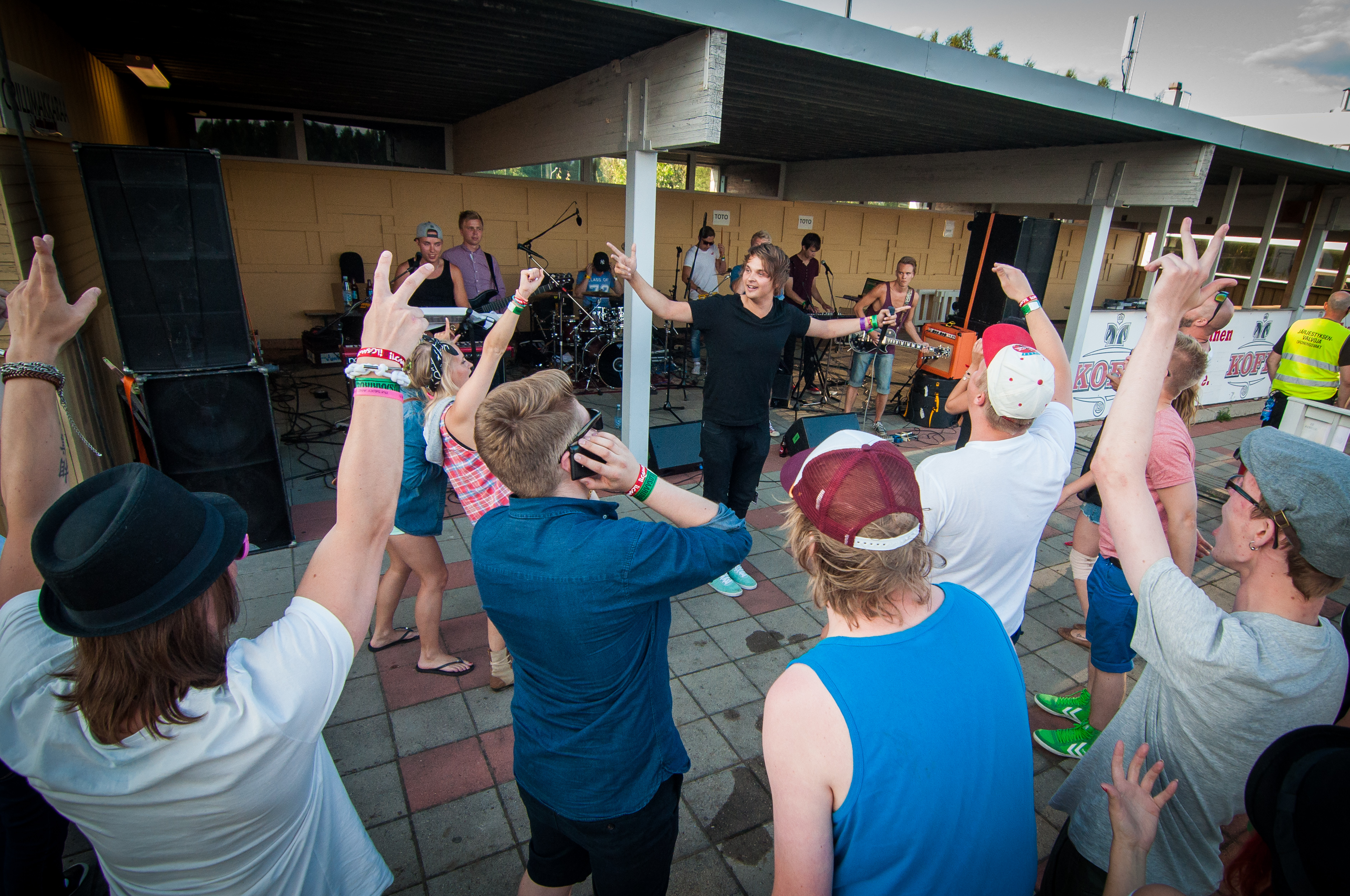 Finnish party band Roope Salminen & Koirat performing at the Ravileirintä camping area of the Ilosaarirock festival in Joensuu, Finland.